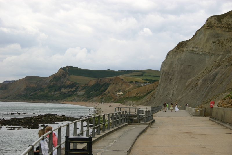 The Jurassic cliffs taken at West Bay, Dorset, England.